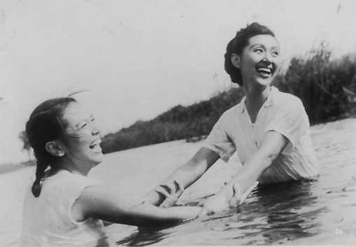 Keiko Tsushima in 1953 Japanese movie Himeyuri no Tō